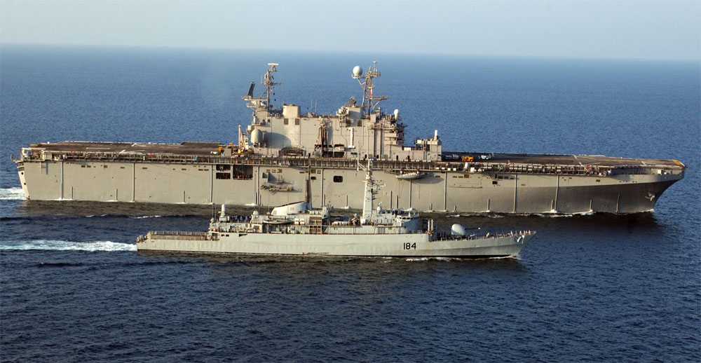 051108-N-0716S-002 Persian Gulf (November 8, 2005) - The Pakistani Navy frigate PNS Badr steams alongside the amphibious assault ship USS Tarawa in the Northern Persian Gulf. Tarawa is the flagship for Expeditionary Strike Group One (ESG-1), commanded by Rear Adm. Michael LeFever, who is also coordinating U.S. forces for the Pakistani led relief effort for the earthquake that struck the northern part of the country on October 8th. The ships of ESG-1 have made several trips to Pakistan to unload relief supplies.